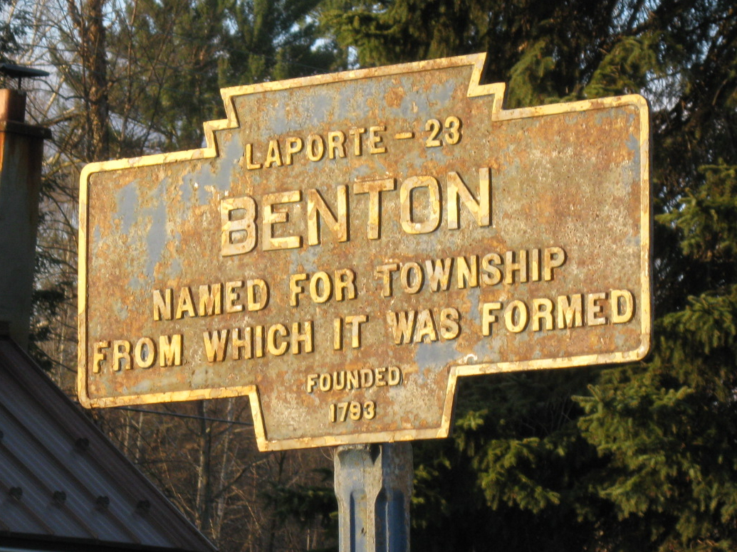 Pennsylvania Keystone Sign for Benton, Columbia County, Pennsylvania